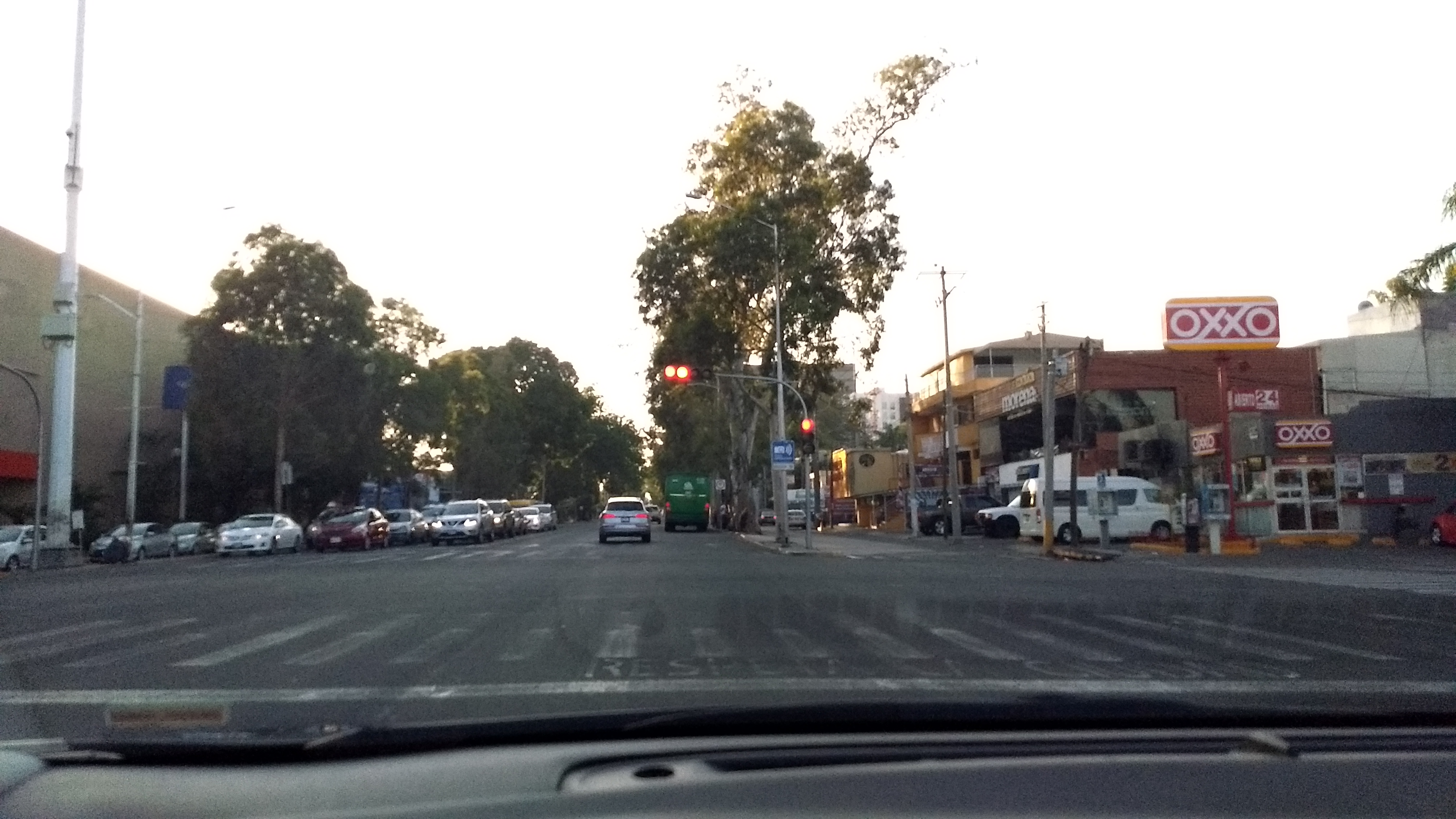 A traffic light in Vallarta Avenue and Aurelio Aceves street in Guadalajara, Jalisco, Mexico, one block away from the Minerva Roundabout, that shows the typical double red traffic lights that can be seen throughout the city.